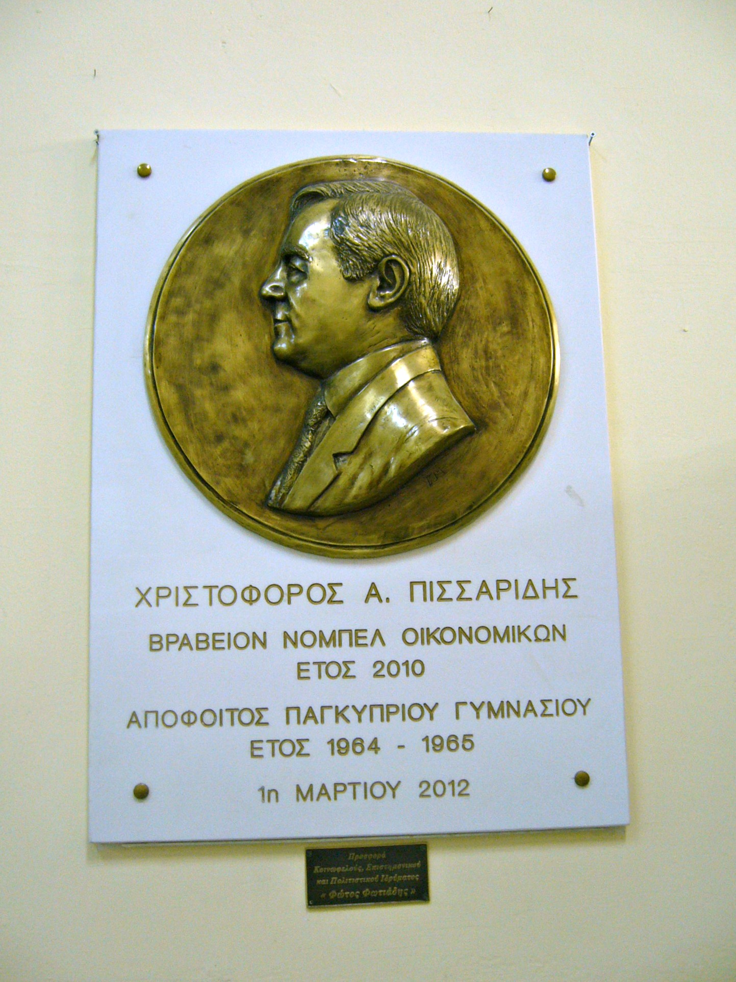 Christopher Pissarides' plaque - a winner of the Nobel prize for economics, placed in the Pancyprian Gymnasium in Nicosia.